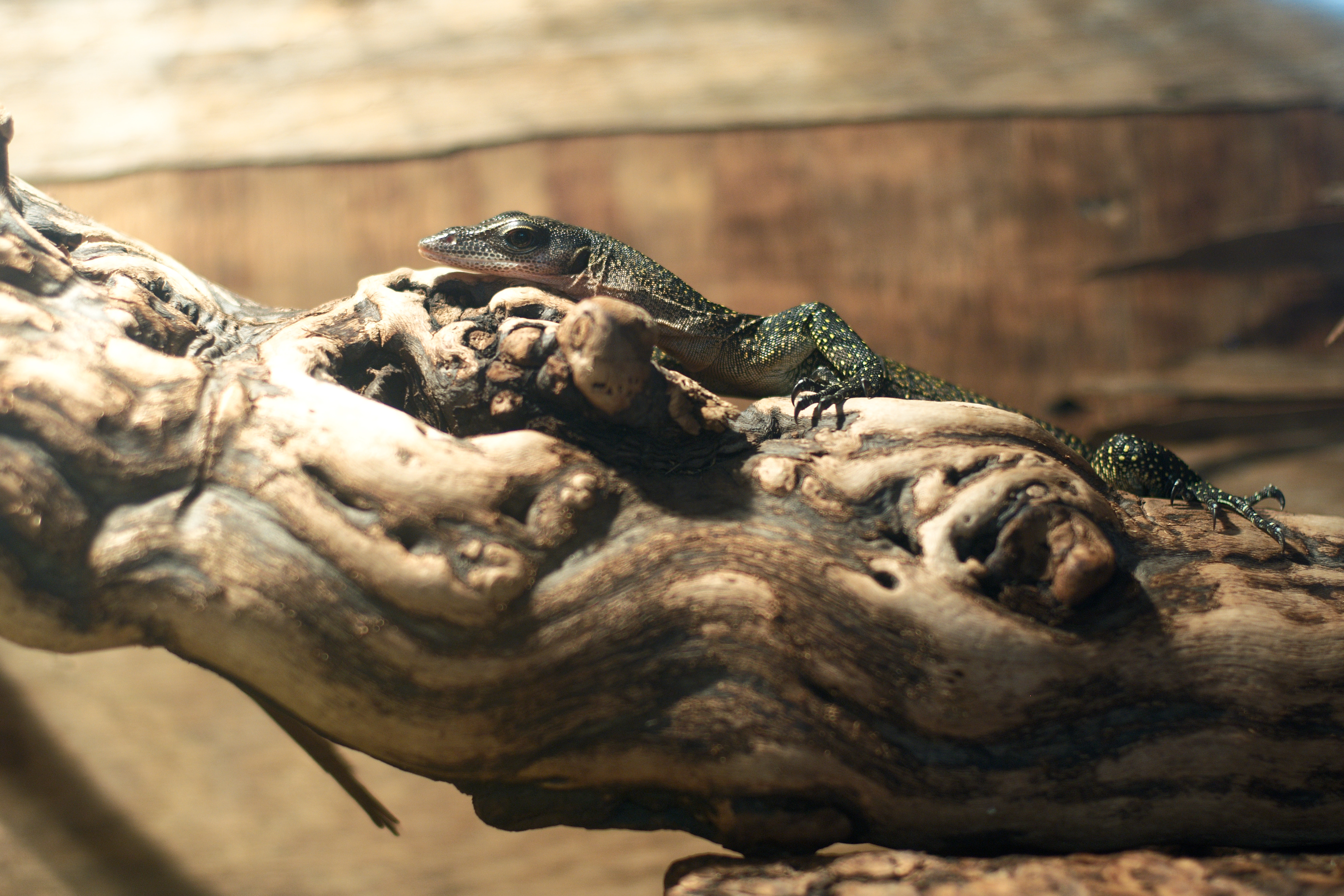 Peach throat monitor. From East Bay Vivarium in Berkeley, California, USA.